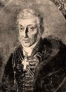 Portrait of the hungarian reformer and politician József Podmaniczky (1756-1823)